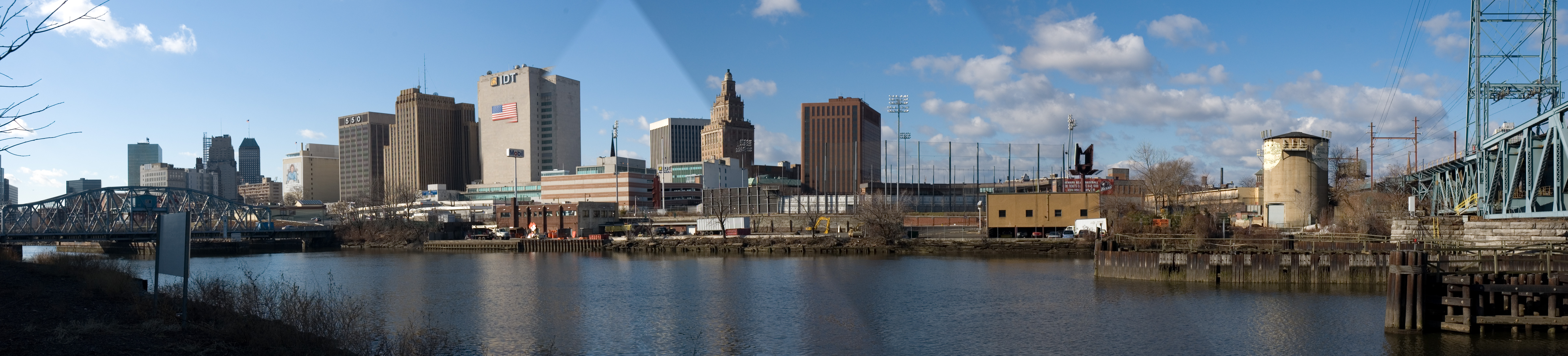 Newark, NJ from Harrison, NJ.